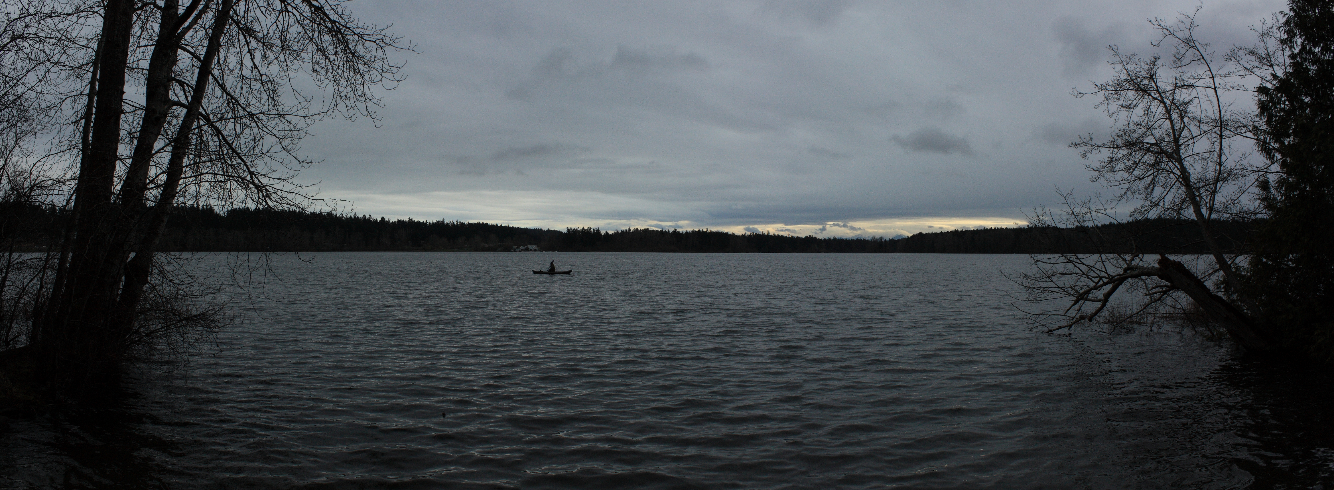 A panorama of Elk/Beaver Lake Regional Park in British Columbia, Canada.